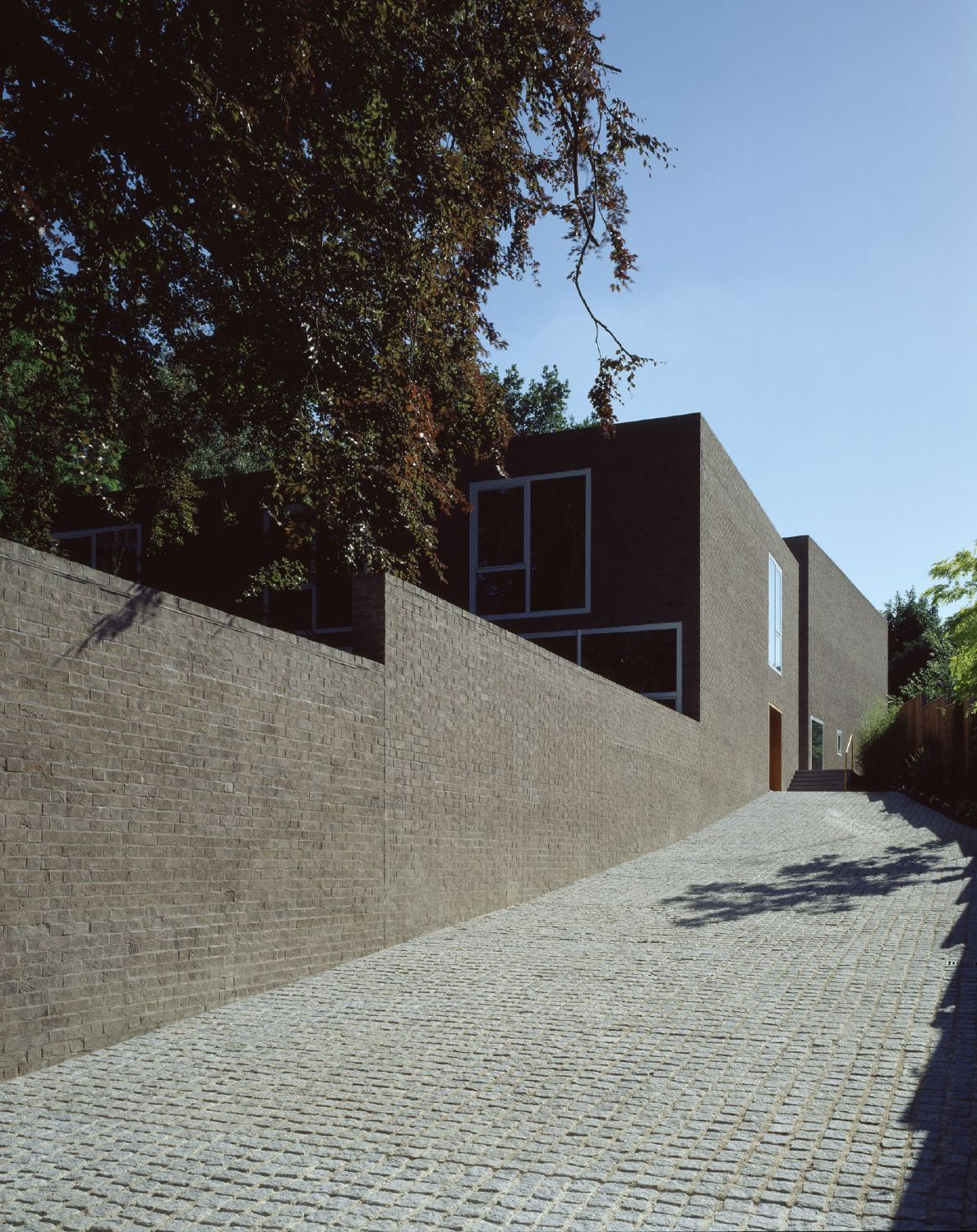 Driveway